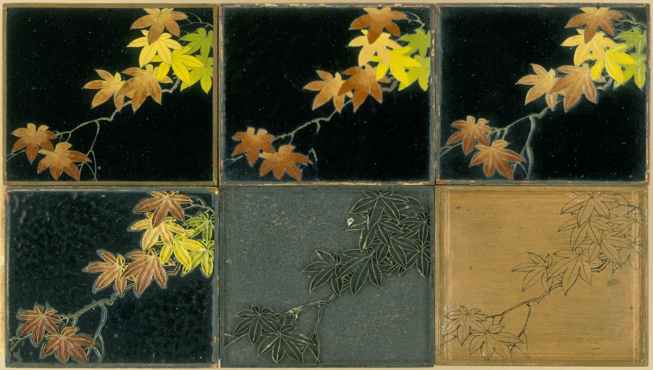 Japan, 19th century Furnishings; Accessories Six plaques in fitted wood box; (a) design drawn on copper ground in red; (b) silver wires attached to ground; (c) enamel partially filled in; (d) more enamel filled in ; (e) enamel over-filled so wires are submerged; (f) final product stoned and polished to mirror 1 1/2 x 2 in. (3.8 x 5 cm) each Gift of Mr. and Mrs. Eugene Tosk (M.91.251.3a-f) Japanese Art Currently on public view: Pavilion for Japanese Art, floor 2